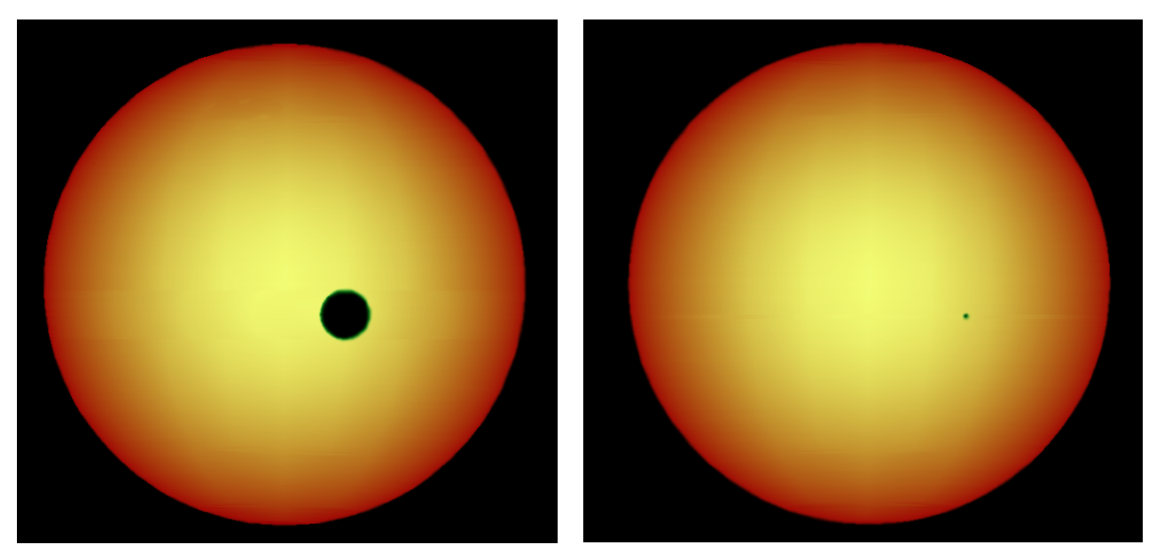 Astronomical transit comparision between Jupiter and the Earth